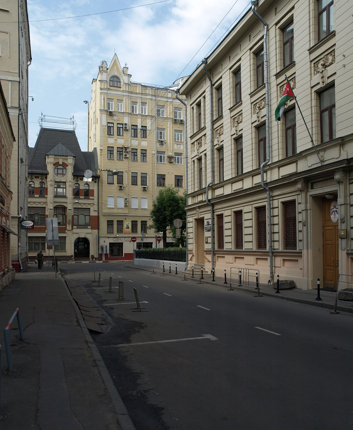 Embassy of Jordan in Moscow (Mamonovsky lane, 3).